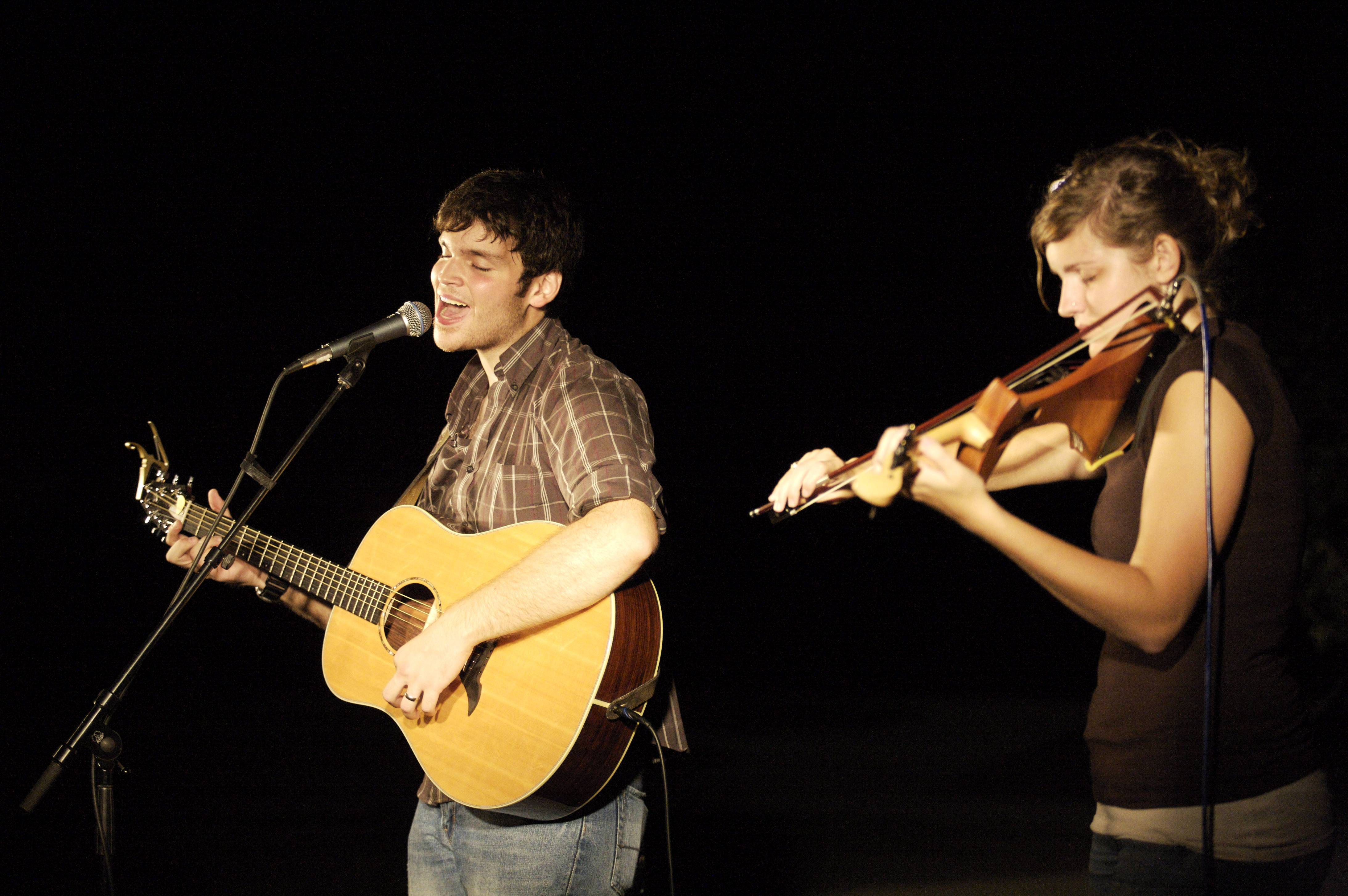 Jimmy Needham and his wife, Kelly, performing his song "Unfailing Love" in concert on August 24, 2008.